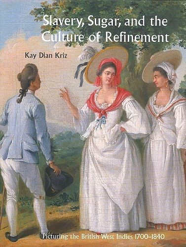 Slavery, Sugar, and the Culture of Refinement book cover.